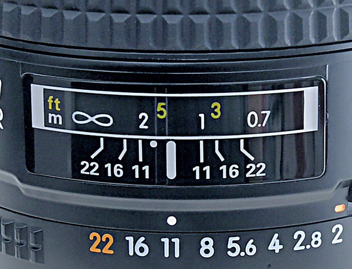 Derived from File:Lens aperture side.jpg